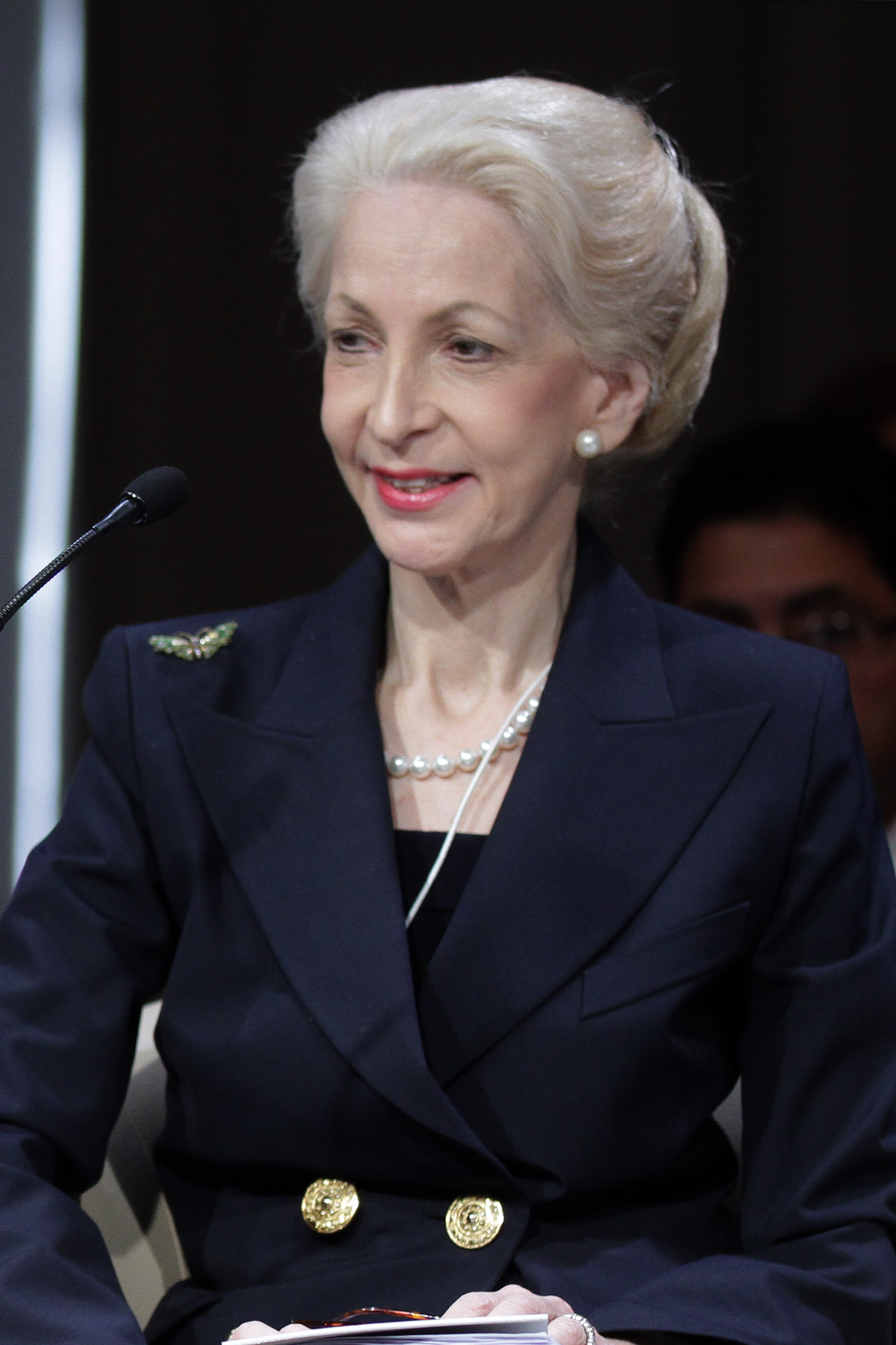 DEAD SEA/JORDAN, 23OCT11 - Barbara Judge, Chairman, United Kingdom Atomic Energy Authority, captured during the US Foreign Policy Priorities, Prespective from John McCain Session during the World Economic Forum Special Meeting on Economic Growth and Job Creation in the Arab World at the Dead Sea in Jordan,23 October, 2011. Copyright World Economic Forum ( by Nader Daoud